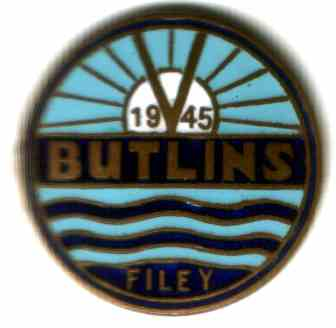 Butlins Filey 1945 badge, photographed 9th Oct 2007 by S.C.